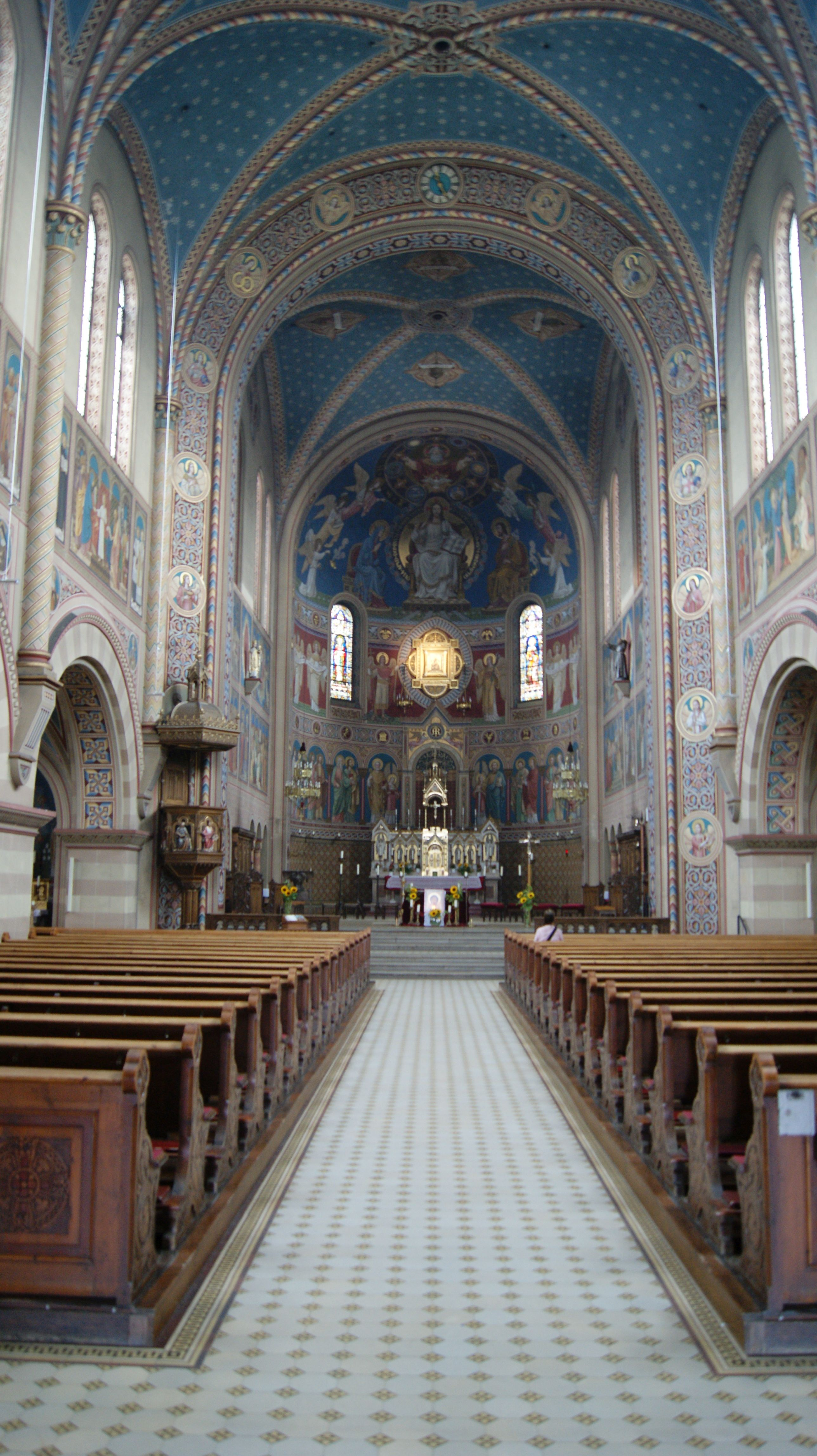 City Cham in the administrative district Cahm in Bavaria. Interior of the Monastery Church Maria Hilf. This is a photograph of an architectural monument.